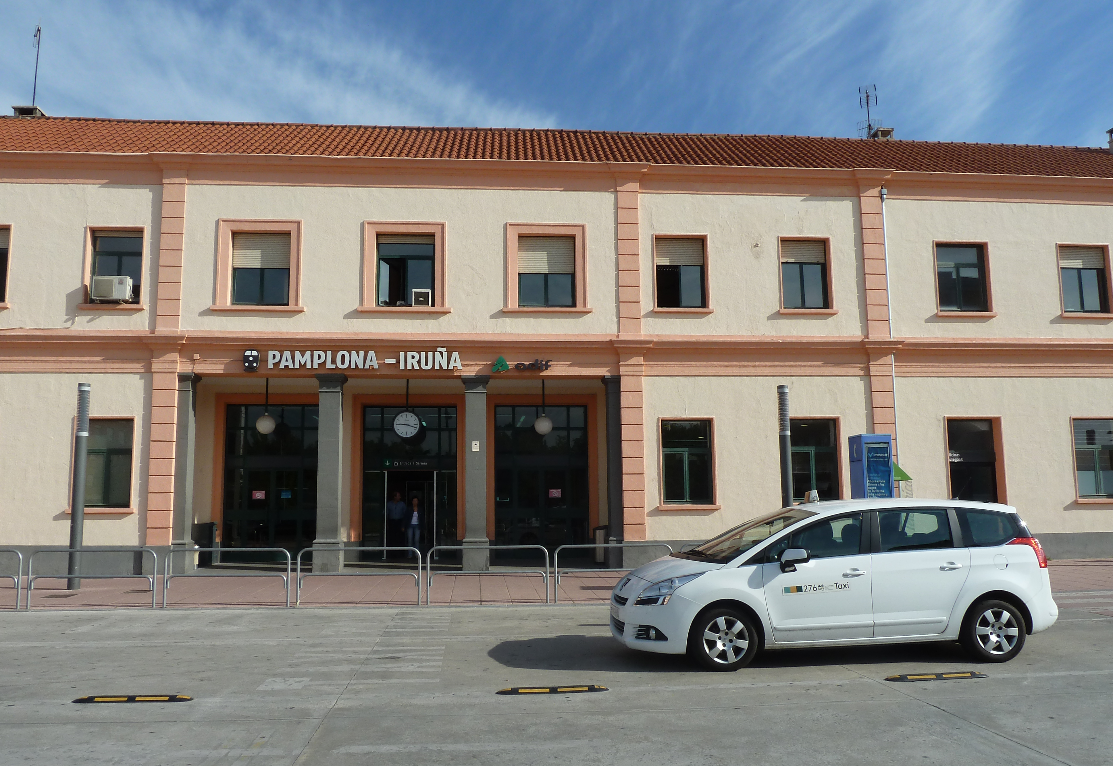 Pamplona Railway Station. In front of her is the only taxi rank in the district of San Jorge/Sanduzelai.